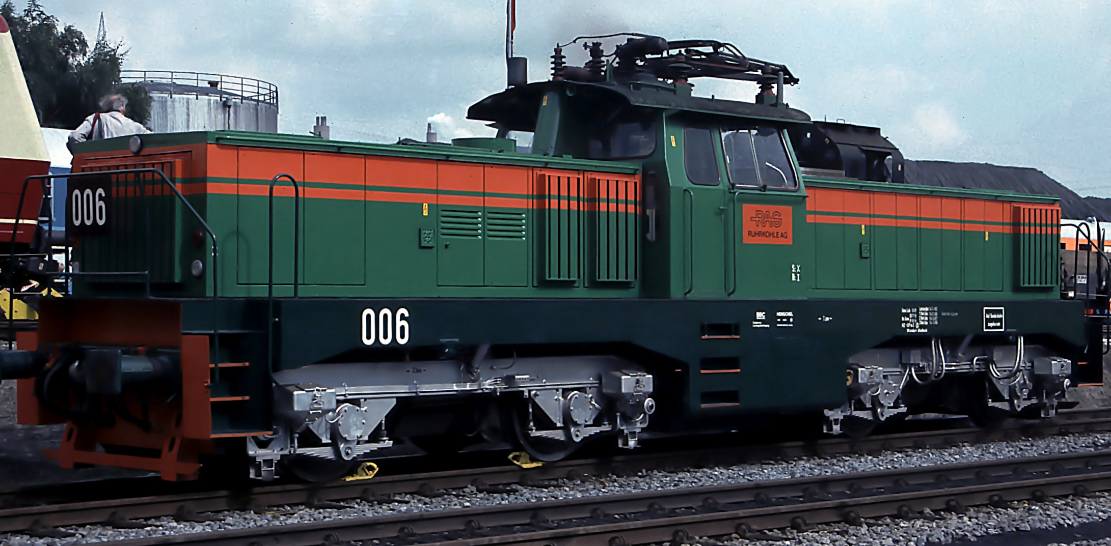 Henschel E 1200 as No. 006 Zechenbahn- und Hafenbetriebe Ruhr-Mitte in Herne